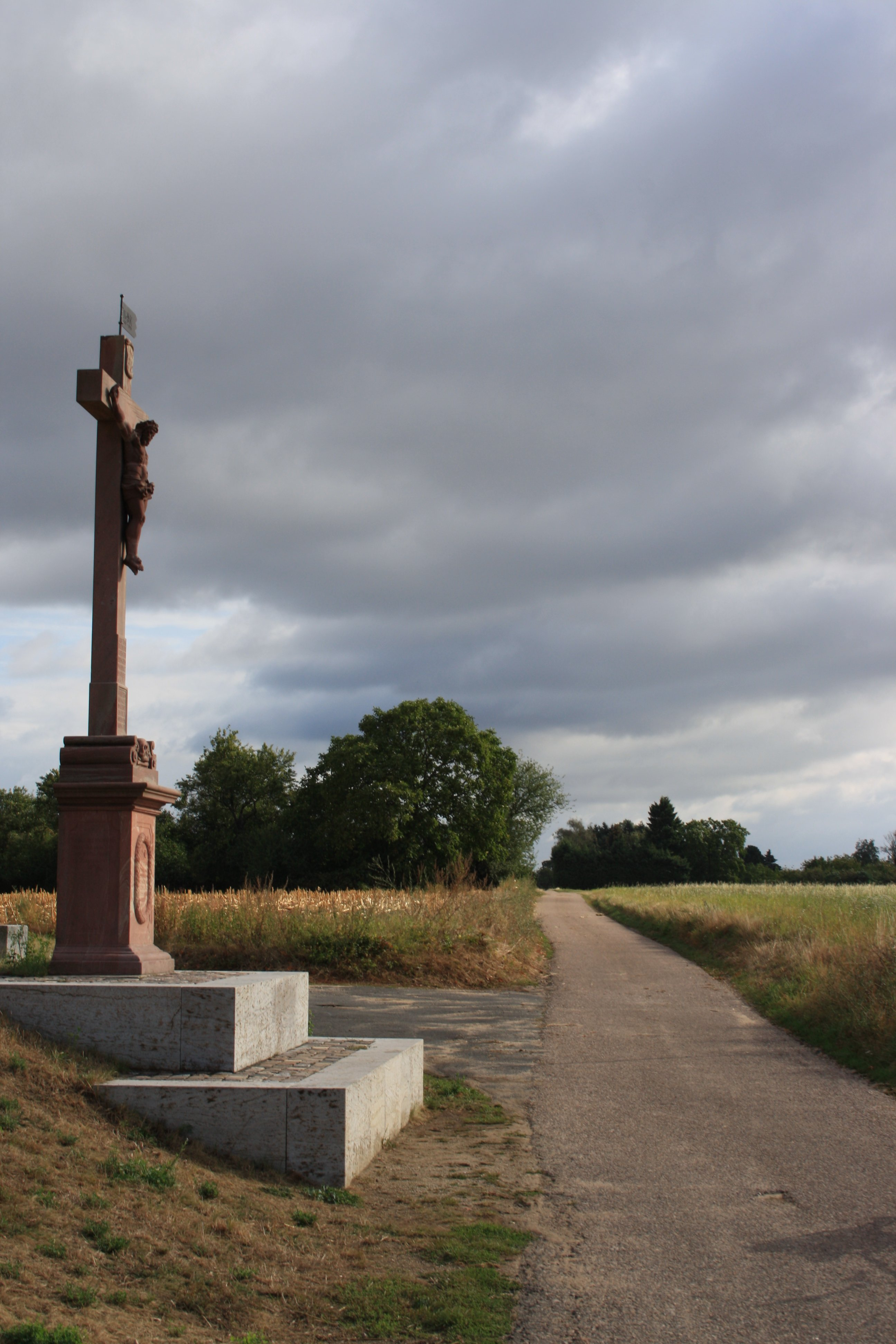 High cross at the Elisabethenstraße (via regis) in Mainz-Kastel